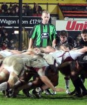 English rugby union referee Wayne Barnes during Saracens F.C. - Newcastle Falcons